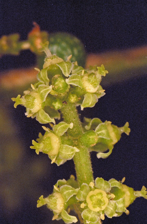 Female flowers of Melicope xanthoxyloides